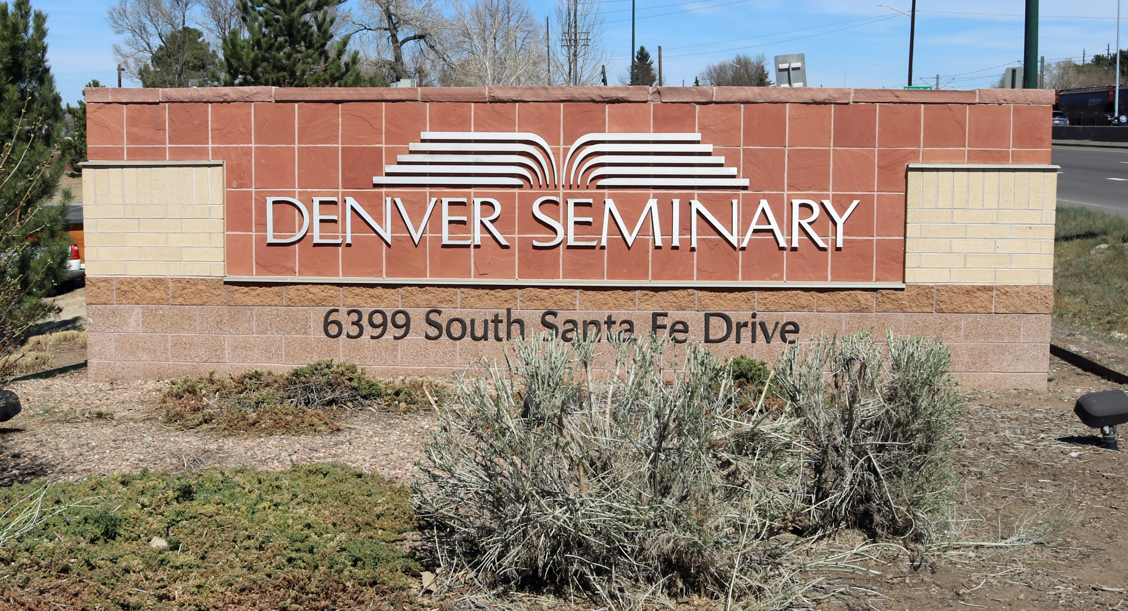 The sign for the Denver Seminary, located at 6399 South Santa Fe Drive in Littleton, Colorado.